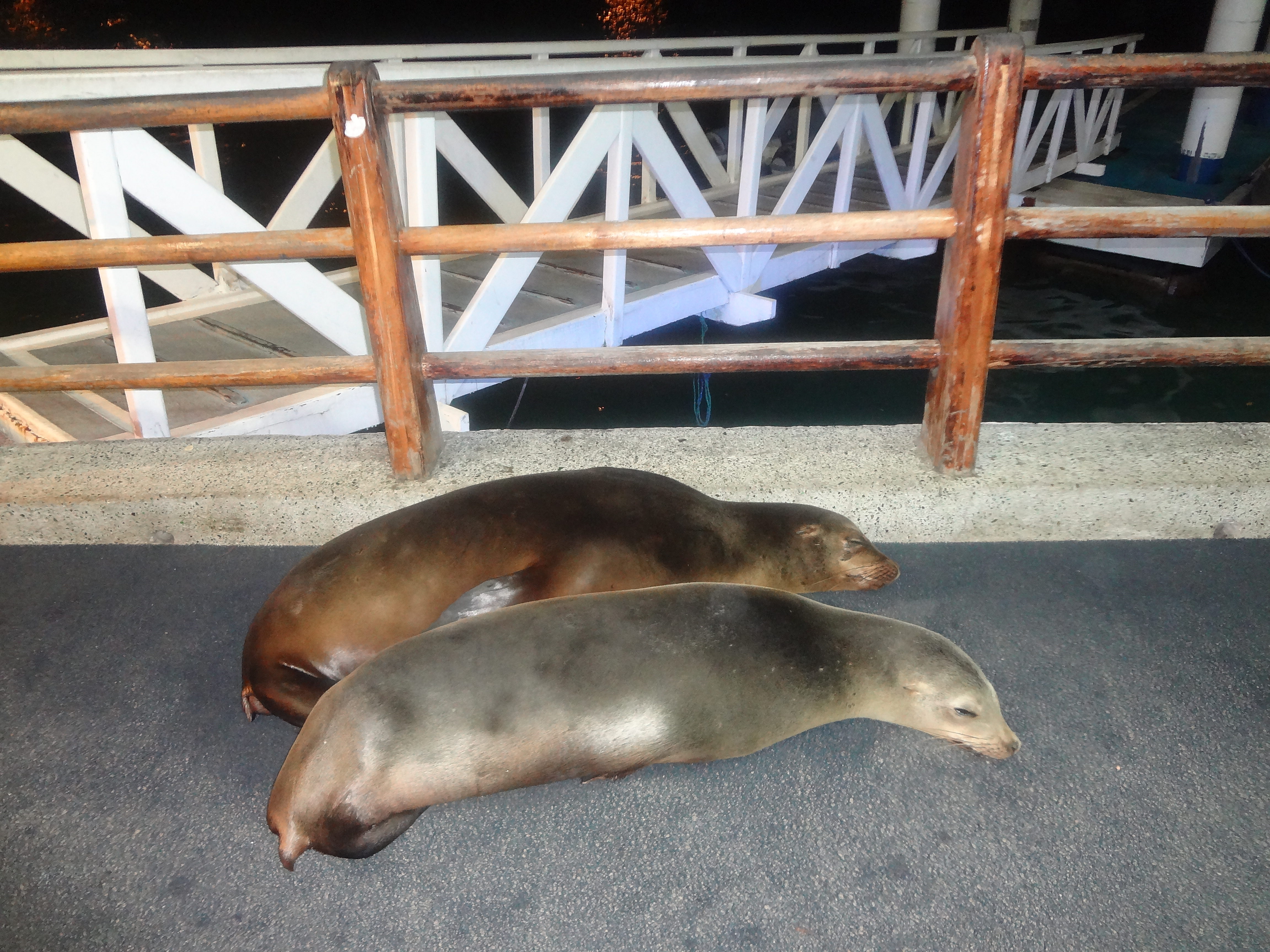 Two Galápagos Sea Lions (Zalophus wollebaeki) on the Puerto Ayora dock at night on the Island of Santa Cruz